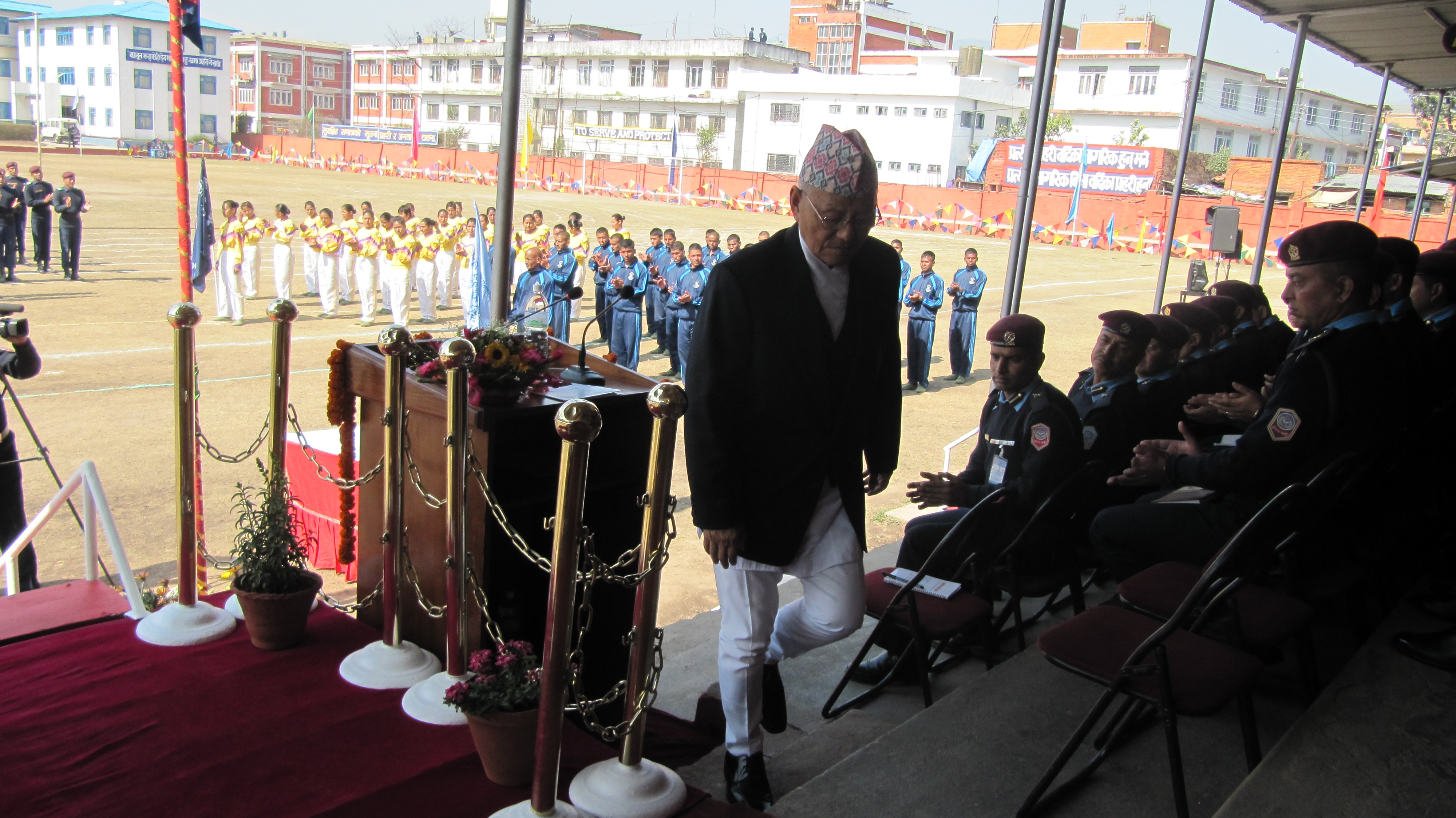 Durlav Kumar Thapa after giving a speech at the National Police Training Academy on 'Academy Day'.